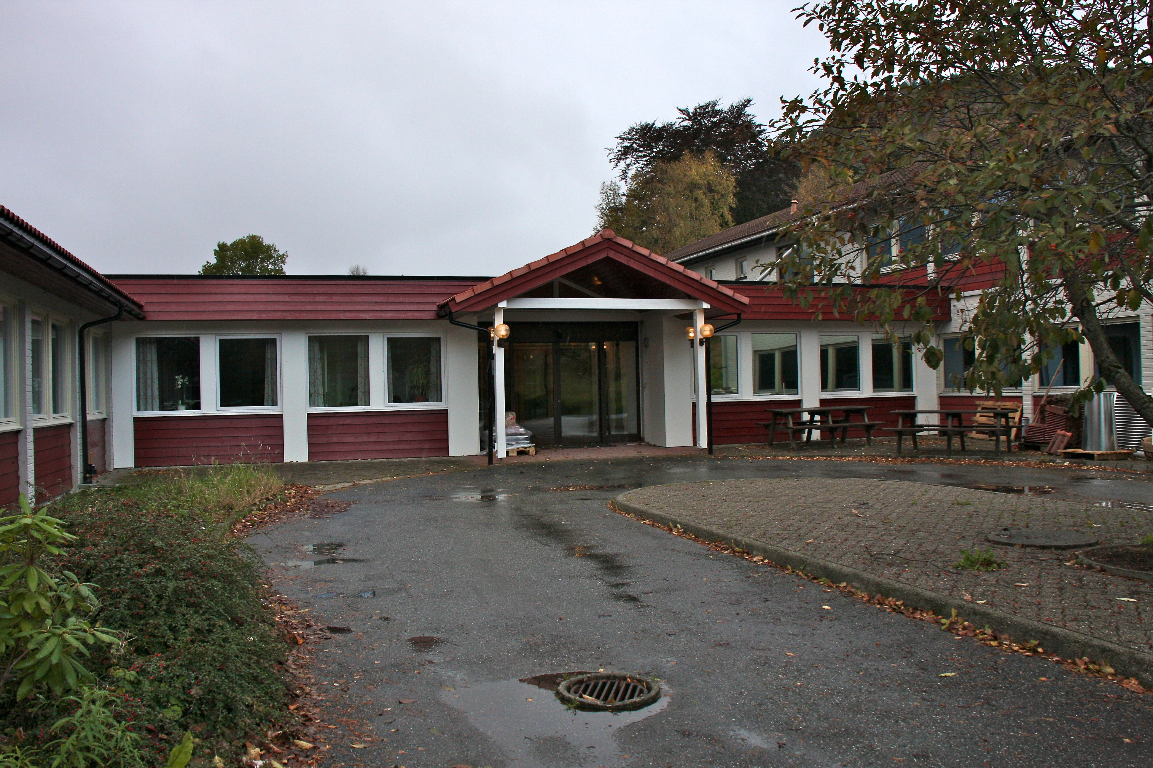 Gulen municipality, Norway.